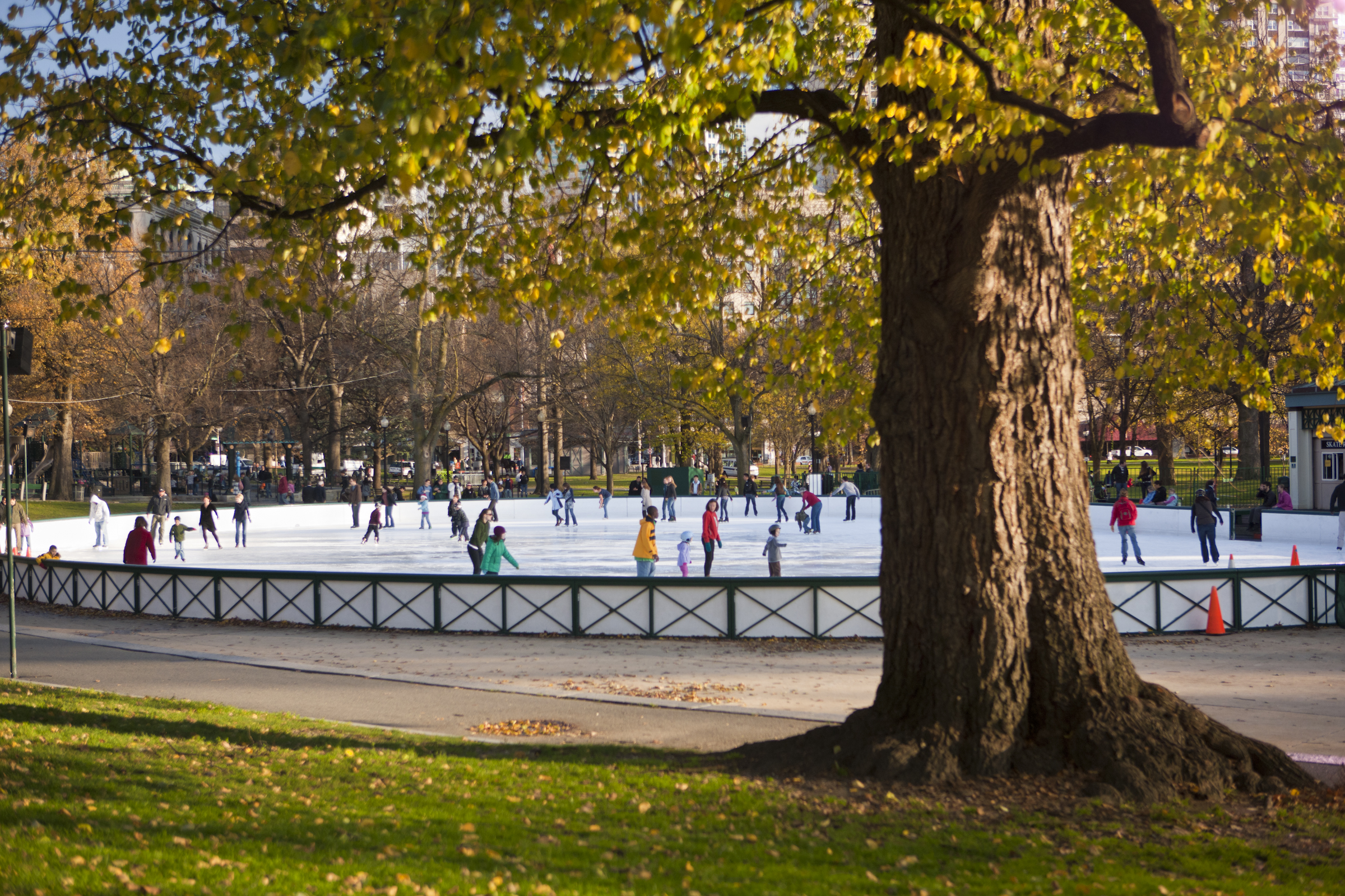 Ice skaters at Boston Common Frog Pond in downtown Boston, Massachusetts